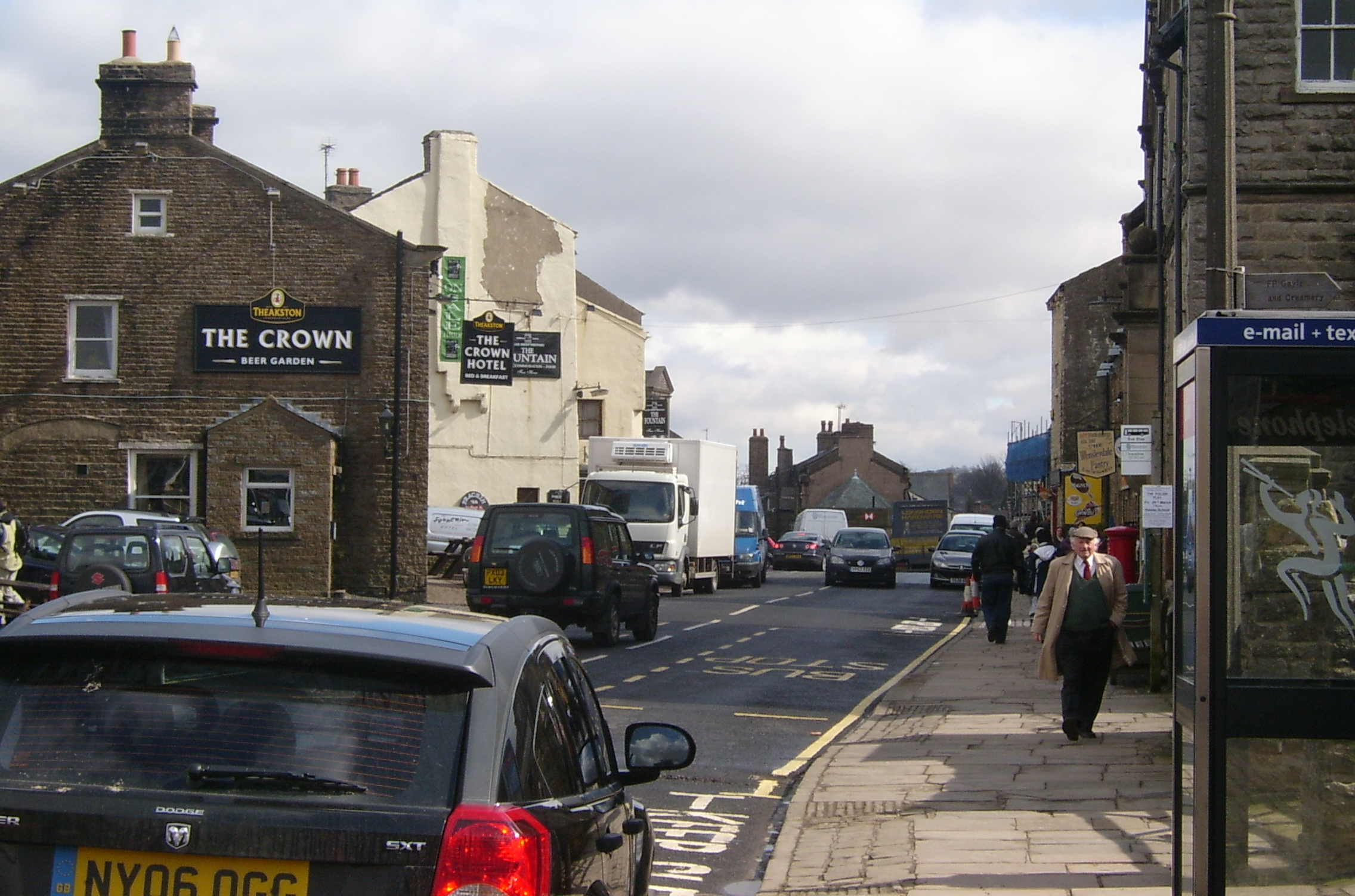 Hawes in the Yorkshire Dales